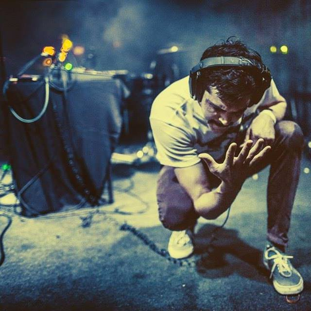 Bayonne during a live set, shot by Pooneh Ghana in 2015